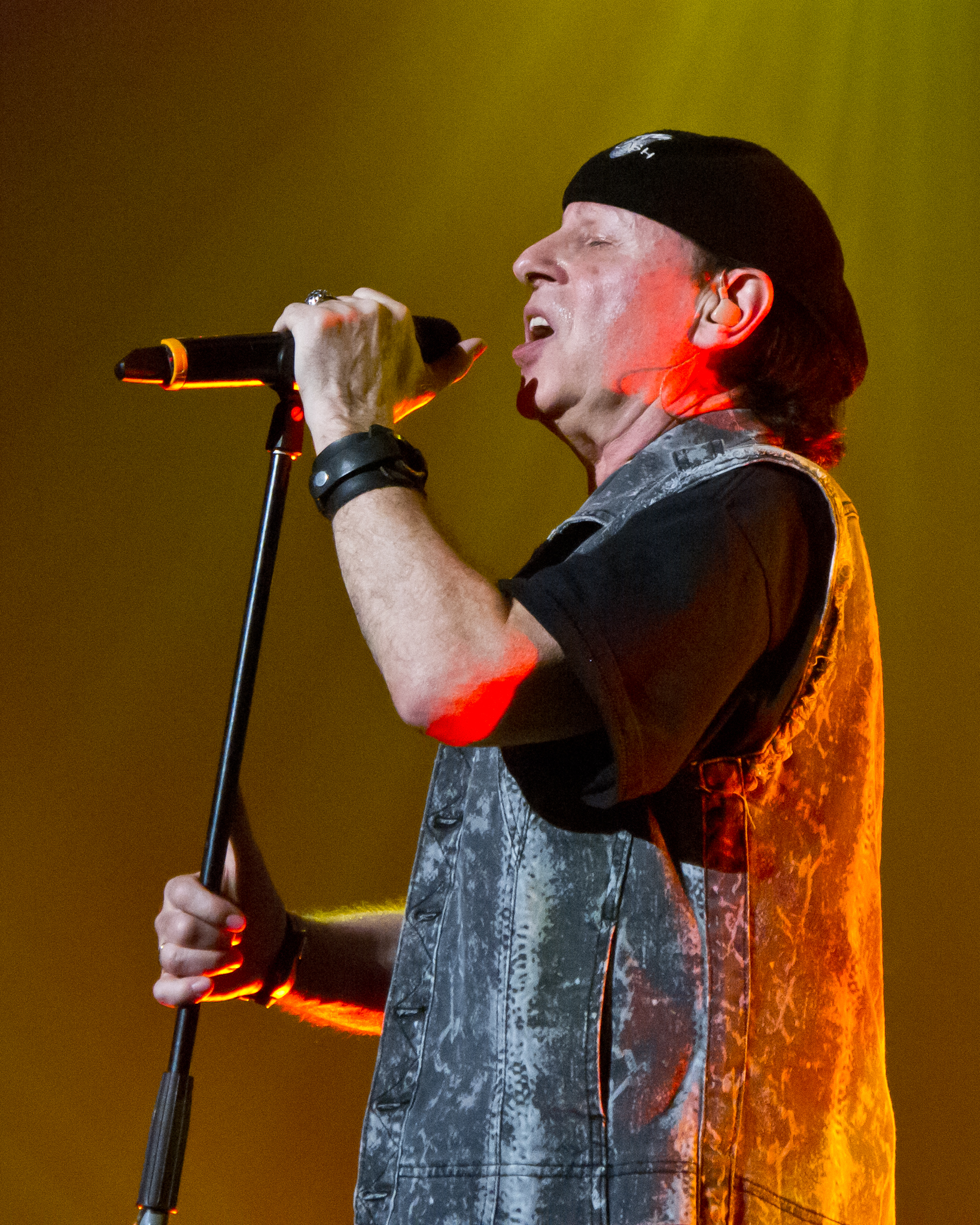 Klaus Meine, vocalist of German rock band Scorpions, in Madrid in 2014.